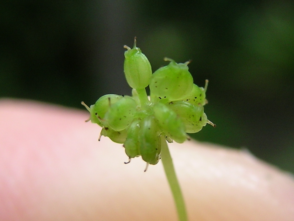 Flowerheads are umbels (flower stalks all arise from the one point) and have tiny (2-3 mm long), 2-lobed flowers that are often hidden below the leaves. Sepals are absent. Petals are 1.5 mm long and purple, crimson, pink or white. Fruit are densely reticulate (i.e. veins form a network).